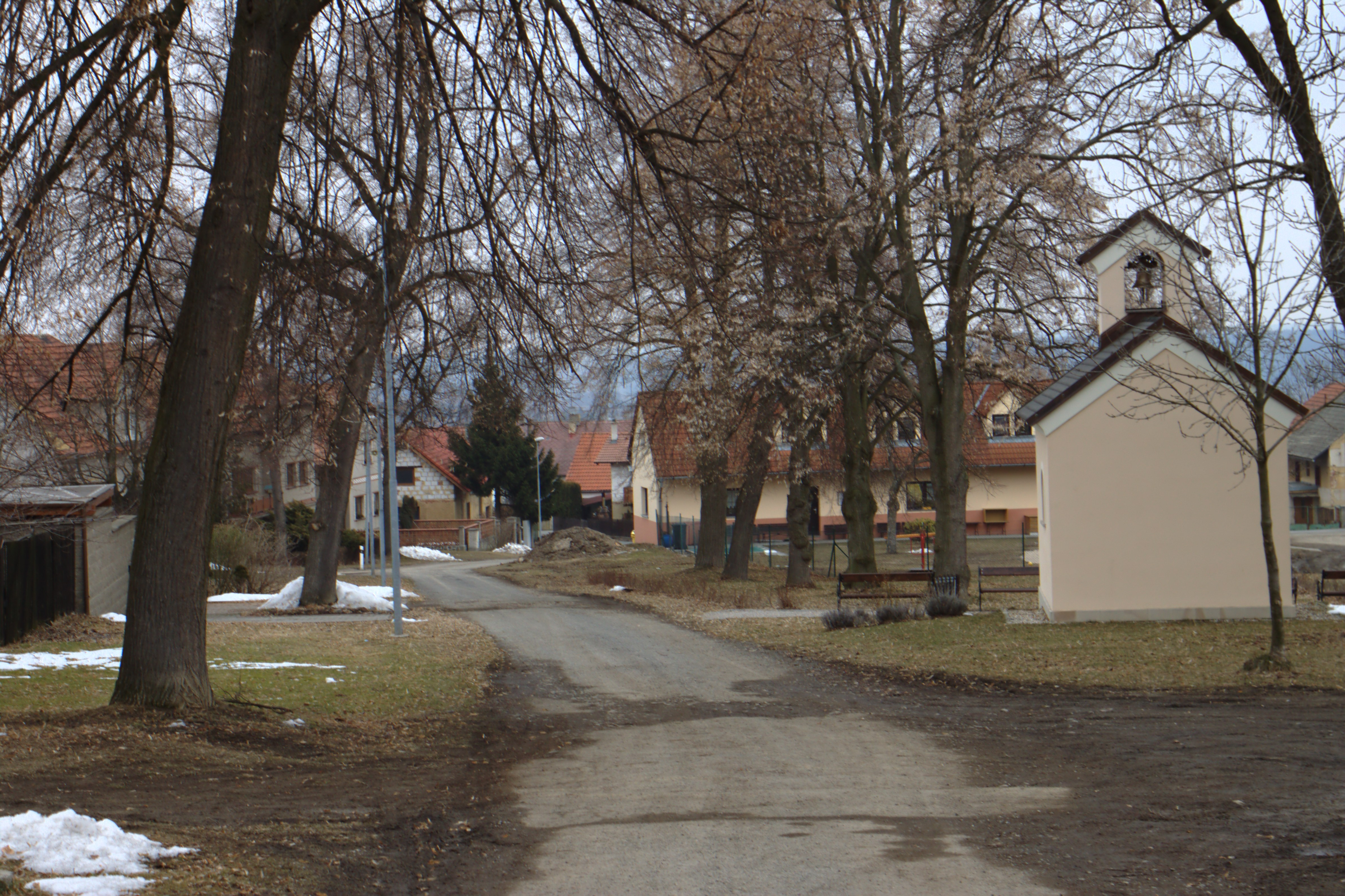 A common in Zavidov, Central Bohemian Region, CZ